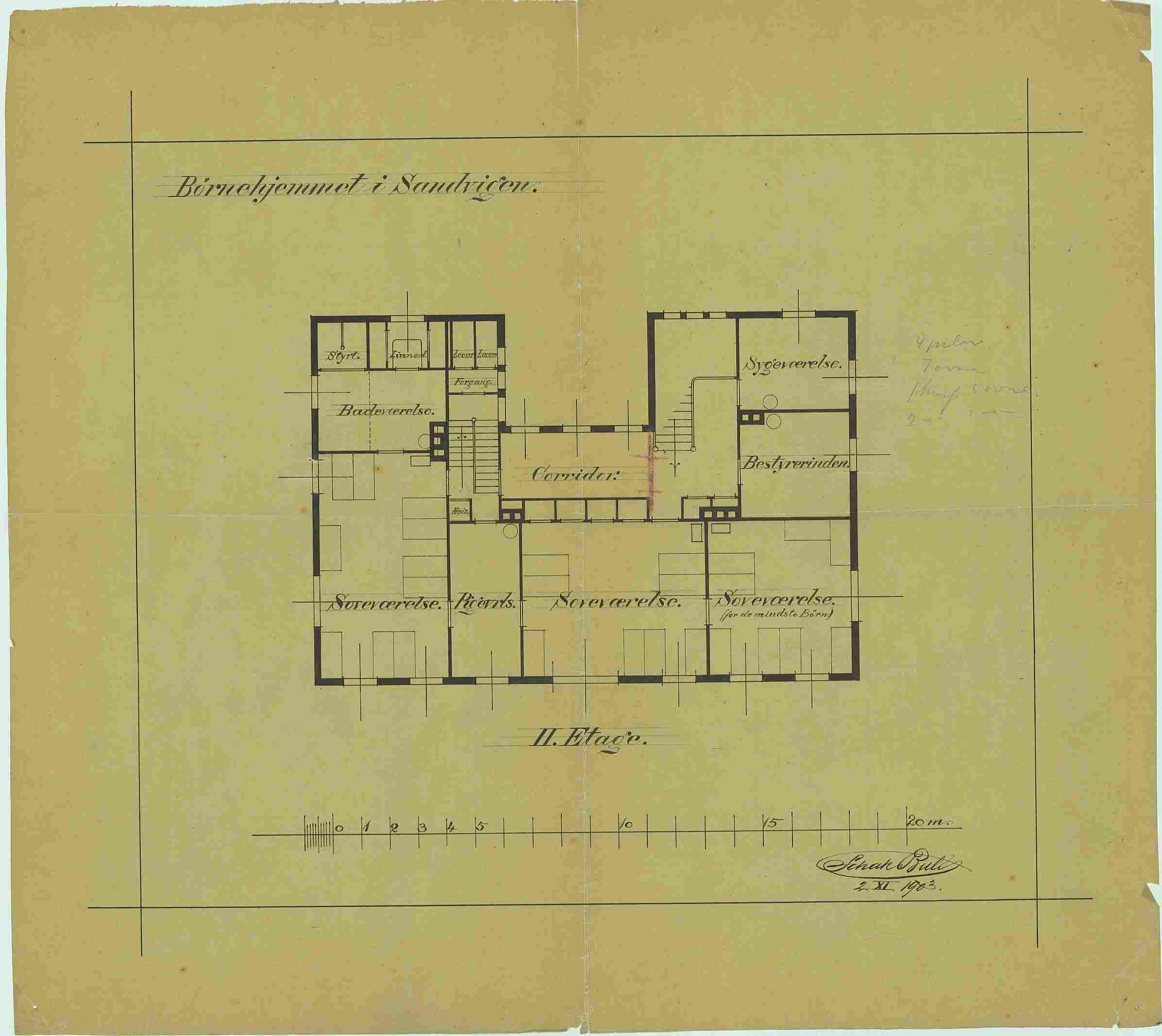 Andre etasje av barnehjemmet.